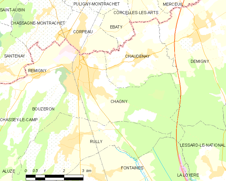 Map of French municipality